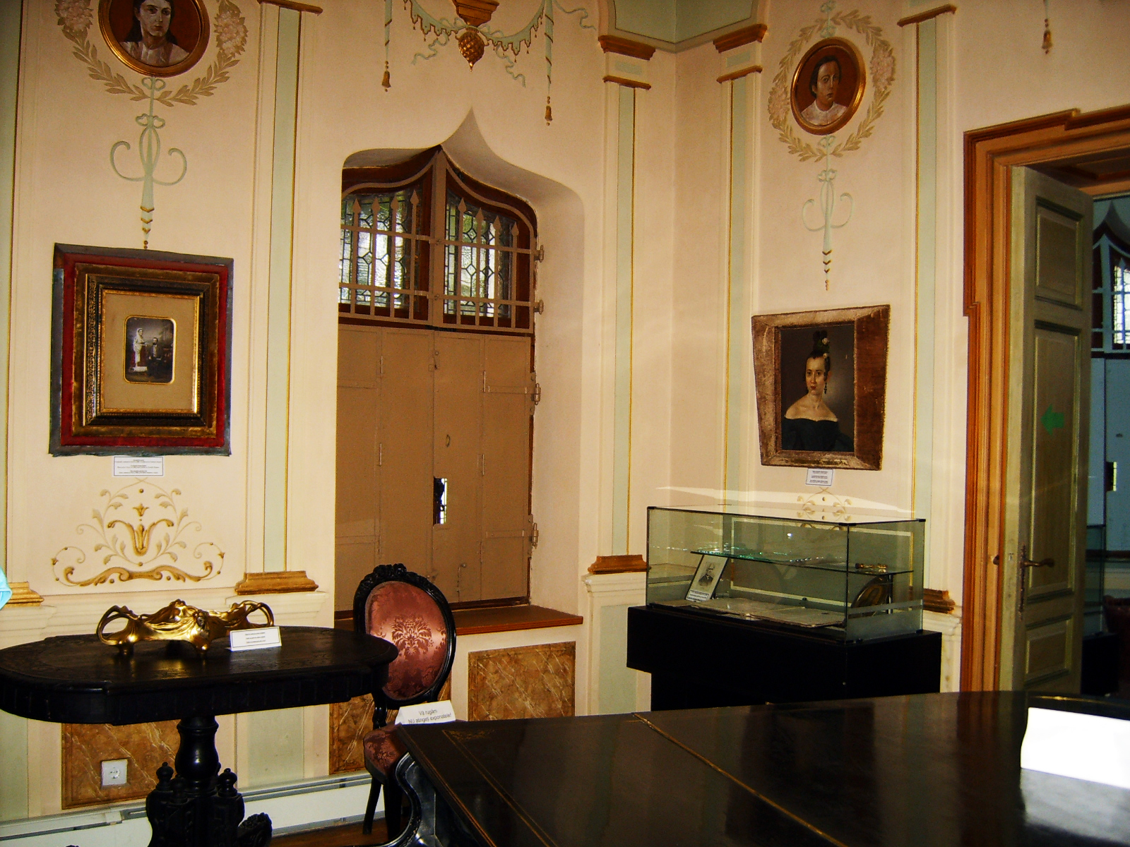 Inside the Iulia Hasdeu palace